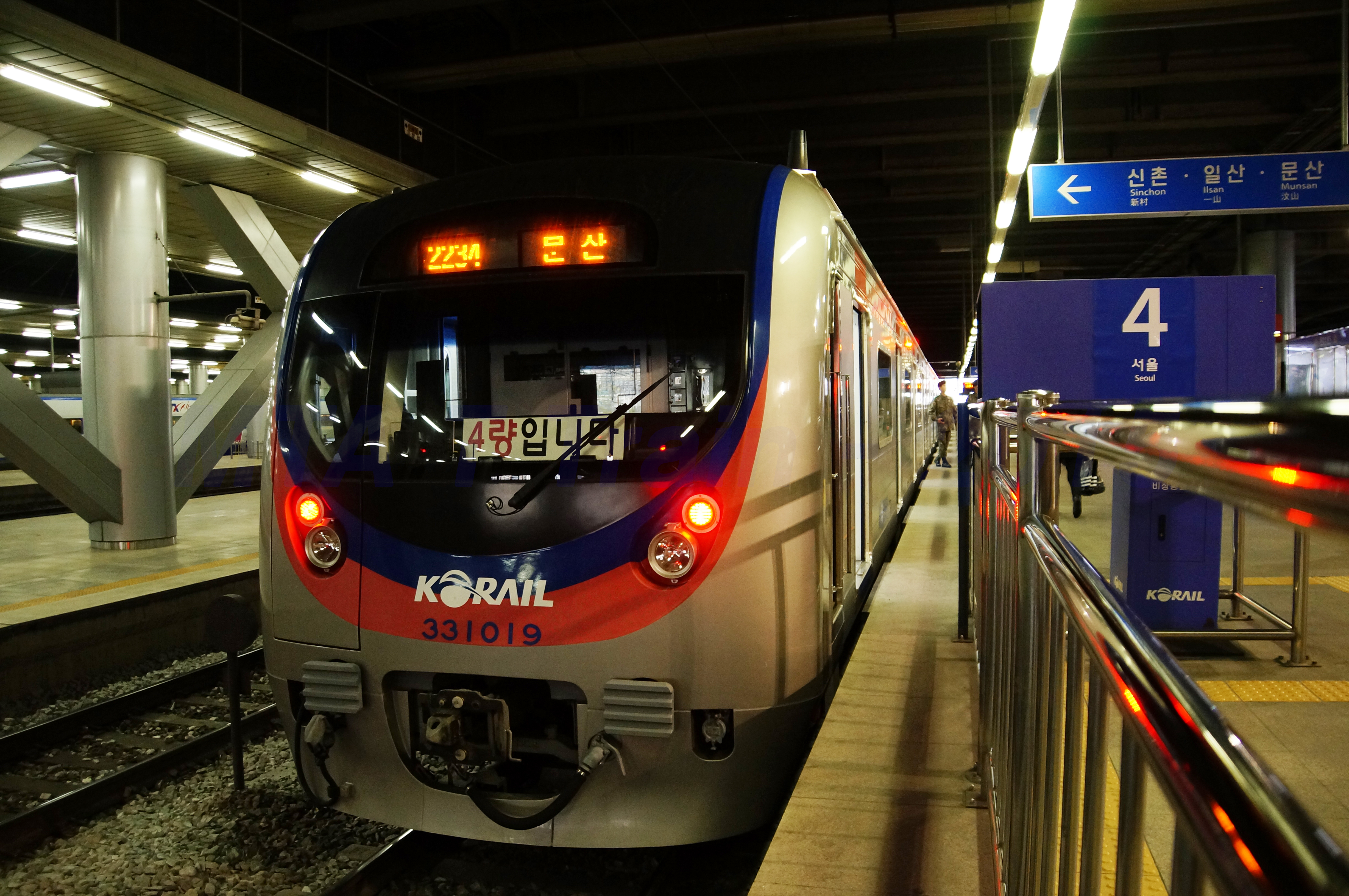 Korail Gyeongui-Jungang Line train (Gyeongui Line Branch) of Korail 331000-series cars (trainset 331x19) at Seoul Station.